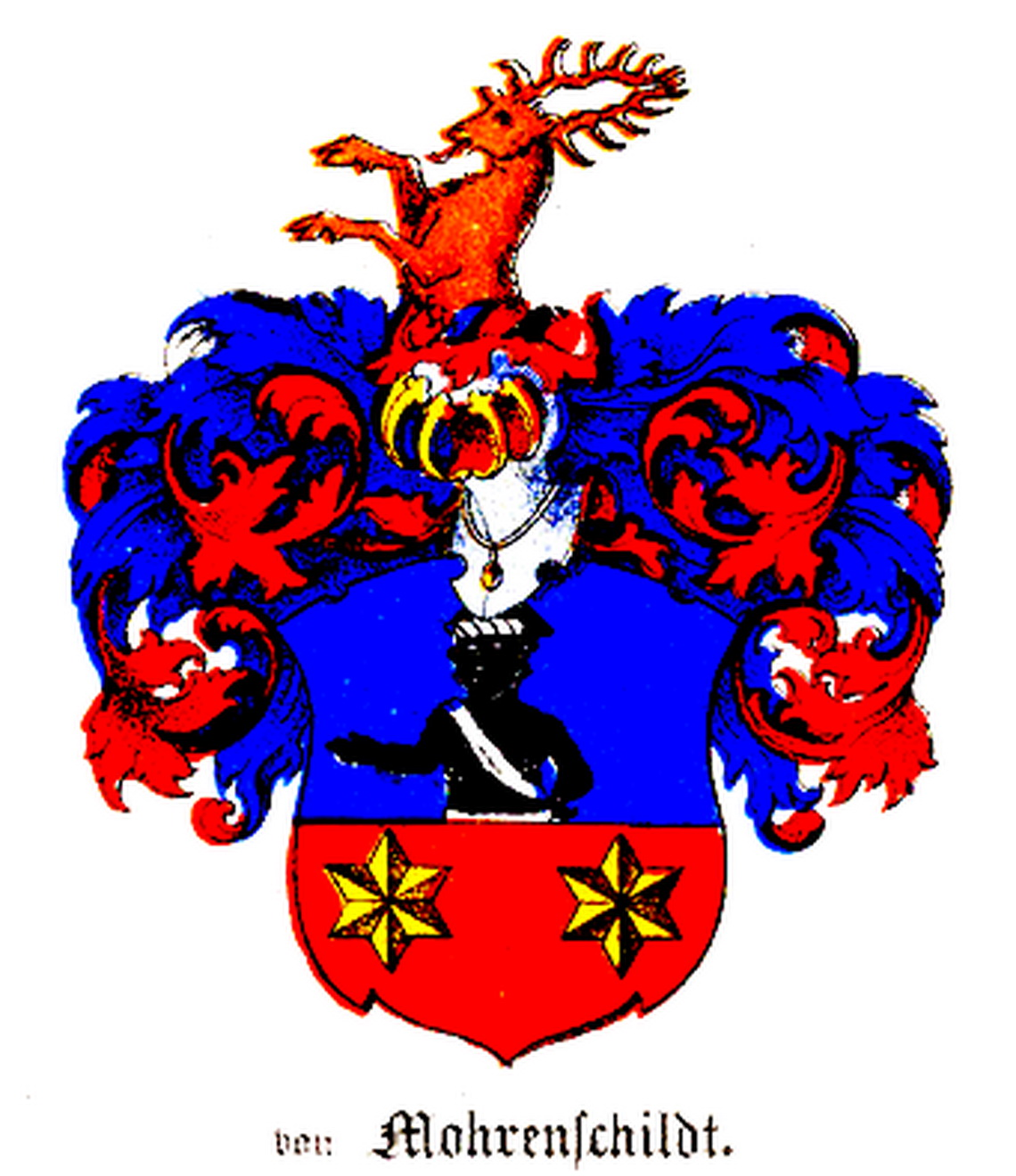 Coat of arms of Mohrenschildt family.